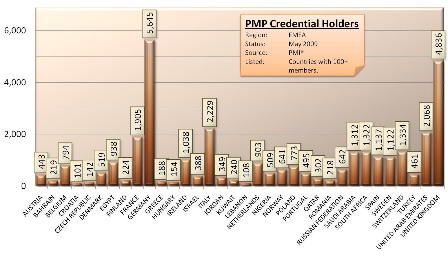 PMP certified individuals in EMEA in May 2009